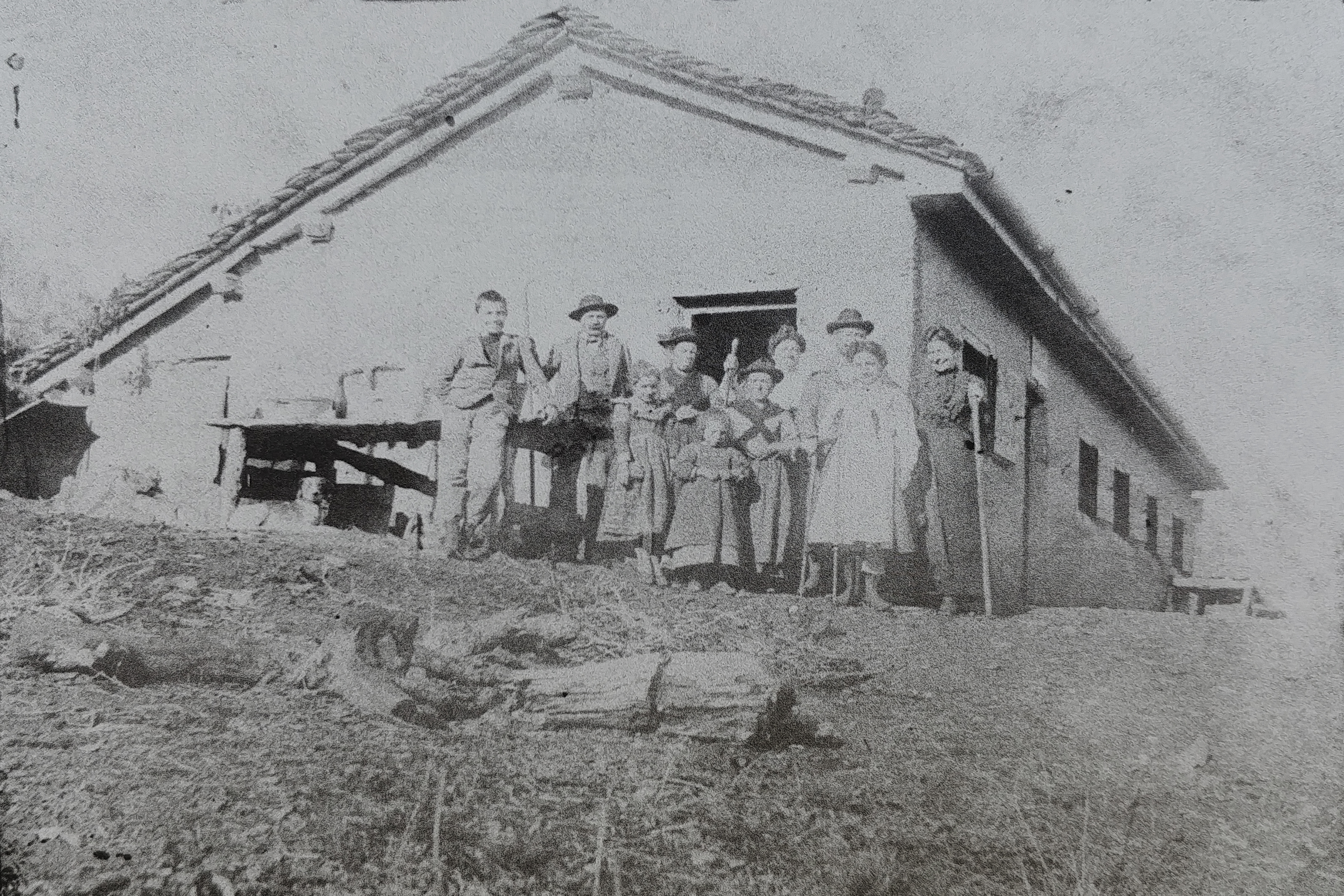 Old picture of the Laghi Gemelli hut (1901)